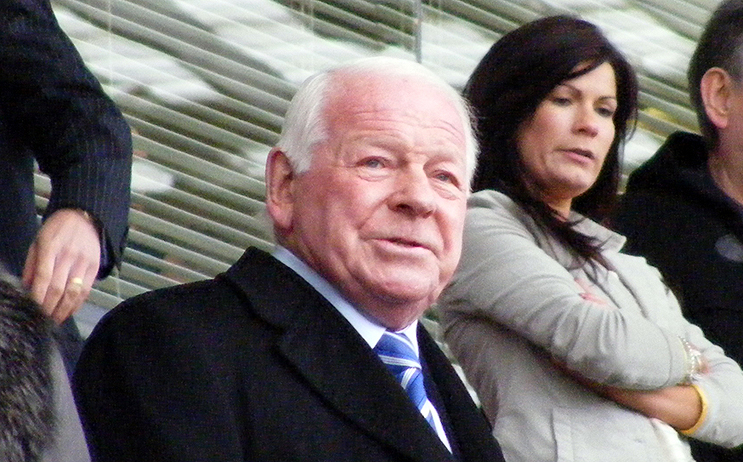 Dave Whelan, owner of Wigan Athletic and former owner of JJB Sports and Wigan Warriors.